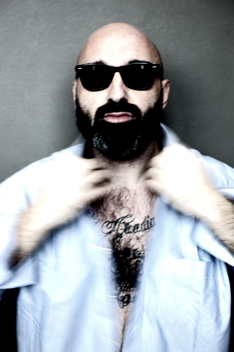 portrait of Dido Fontana by Frankie Vaughan photographer